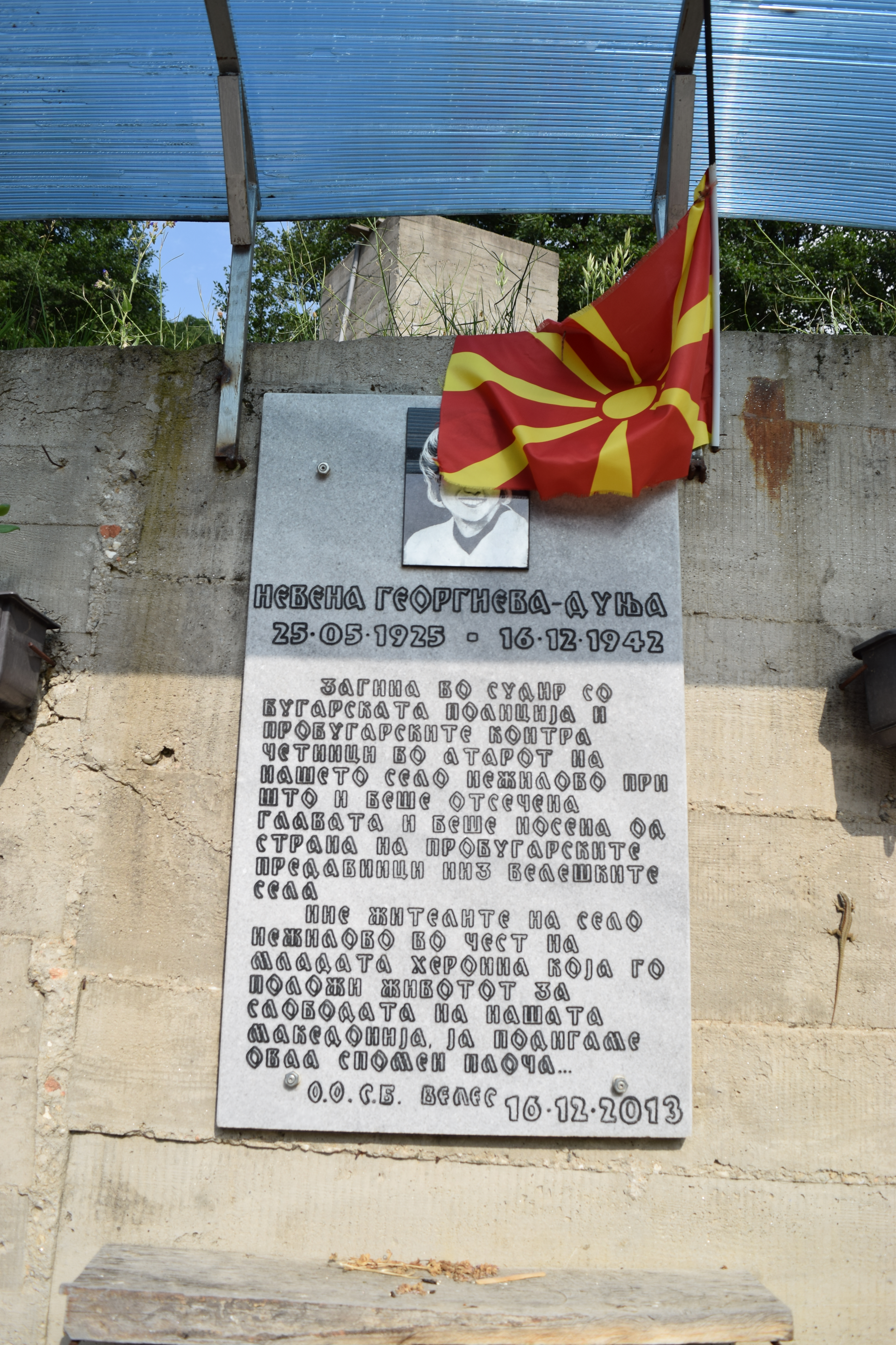 Memorial in the village Nežilovo